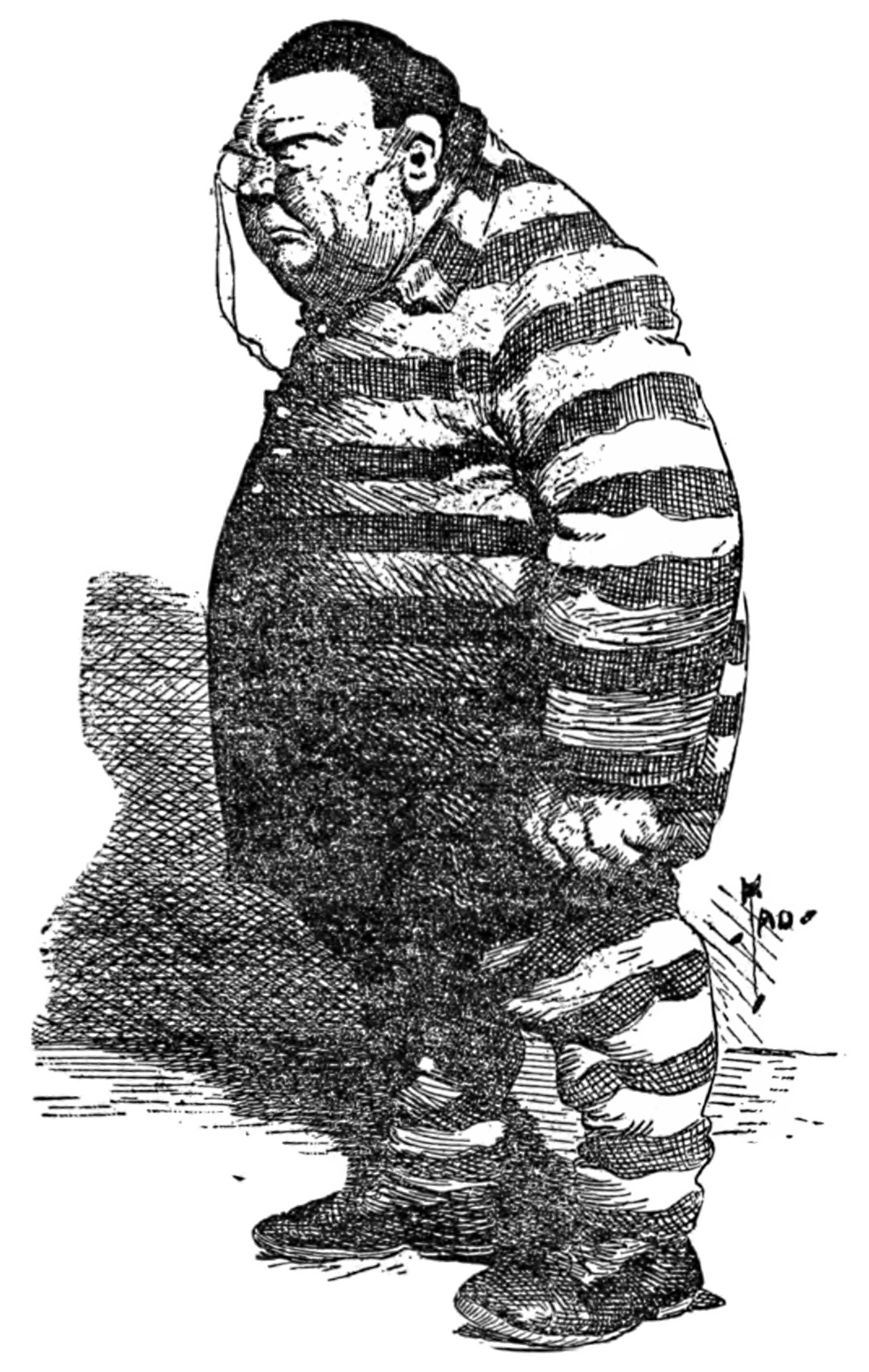 Caricature of Charles Francis Murphy (1858–1924), head of New York City's Tammany Hall, that ran in the New York Journal on November 10, 1905. William Randolph Hearst, owner of the Journal and the 1905 Democratic candidate for mayor of New York, was defeated through electoral fraud perpetrated by Murphy's organization. This drawing was was reprinted in Current Literature, Vol. 41, No. 5, October 1906, and appears on page 477 of the public domain file collected here at the Internet Archive.